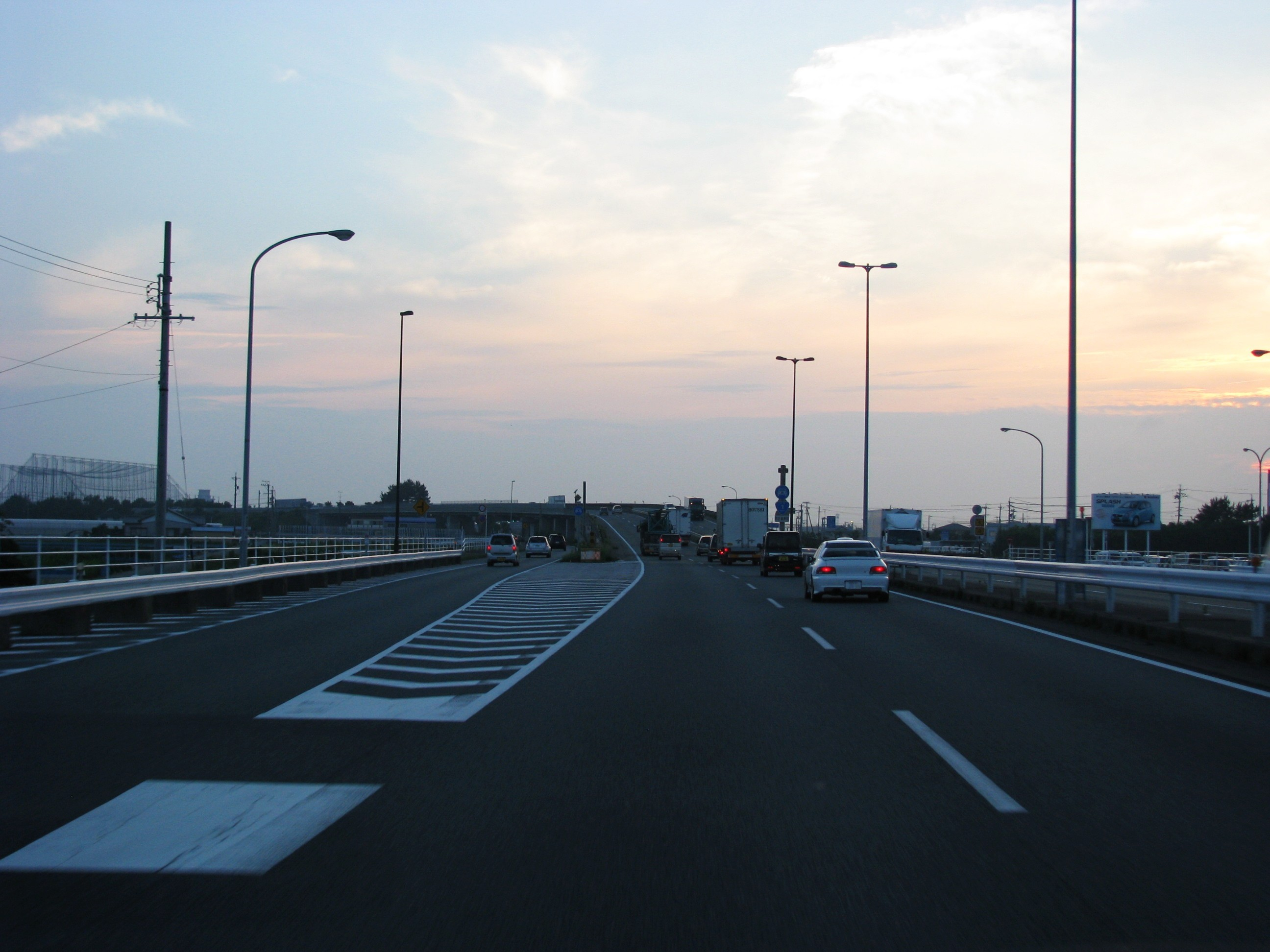 The Japan National Route 1. This place is Hamamatsu, Shizuoka Prefecture, Japan.